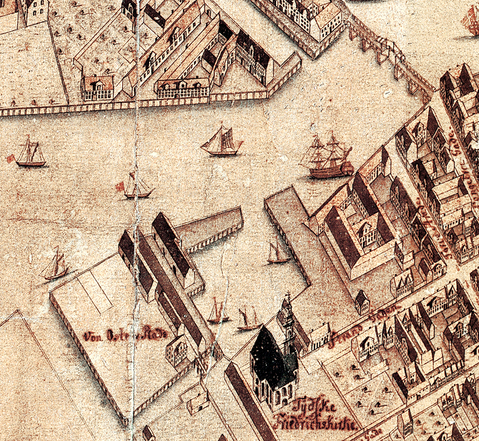 Detail from Gedde's map of Copenhagen showing Danish West Indies Company's recently abandoned headuqarters and dock in Christianshavn, Copenhagen, Denmark